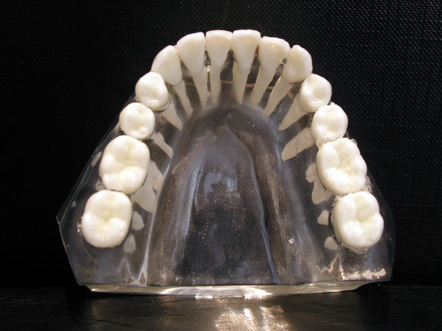 Demonstration model, lower jaw. The photo was taken the 23rd December 2005 by Håkan Svensson (Xauxa).